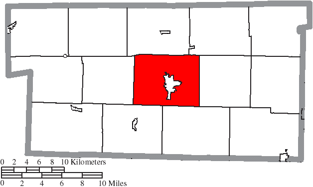 Map of the municipal and township boundaries of Holmes County, Ohio, United States, as of the 2000 census, with the location of Hardy Township highlighted. Township borders are shown only in unincorporated areas in order to differentiate incorporated and unincorporated areas more clearly.